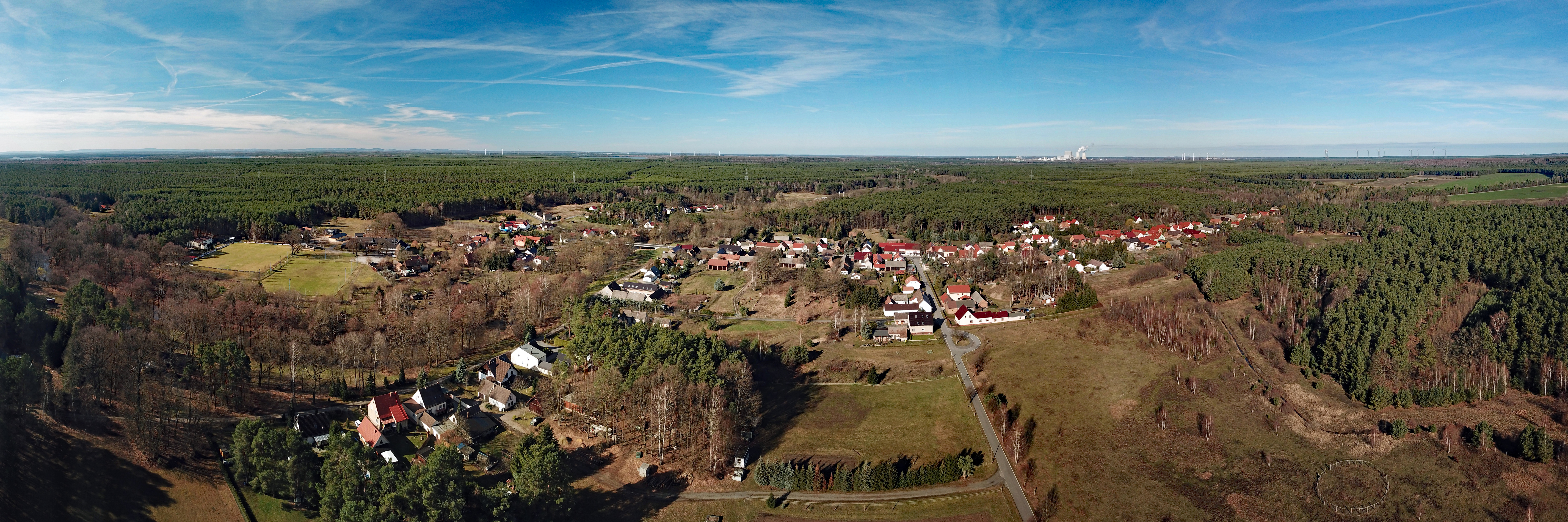 Neustadt (Spree) (Spreetal, Saxony, Germany) Hornjoserbsce: Powětrowy wobraz Noweho Města nad Sprjewju